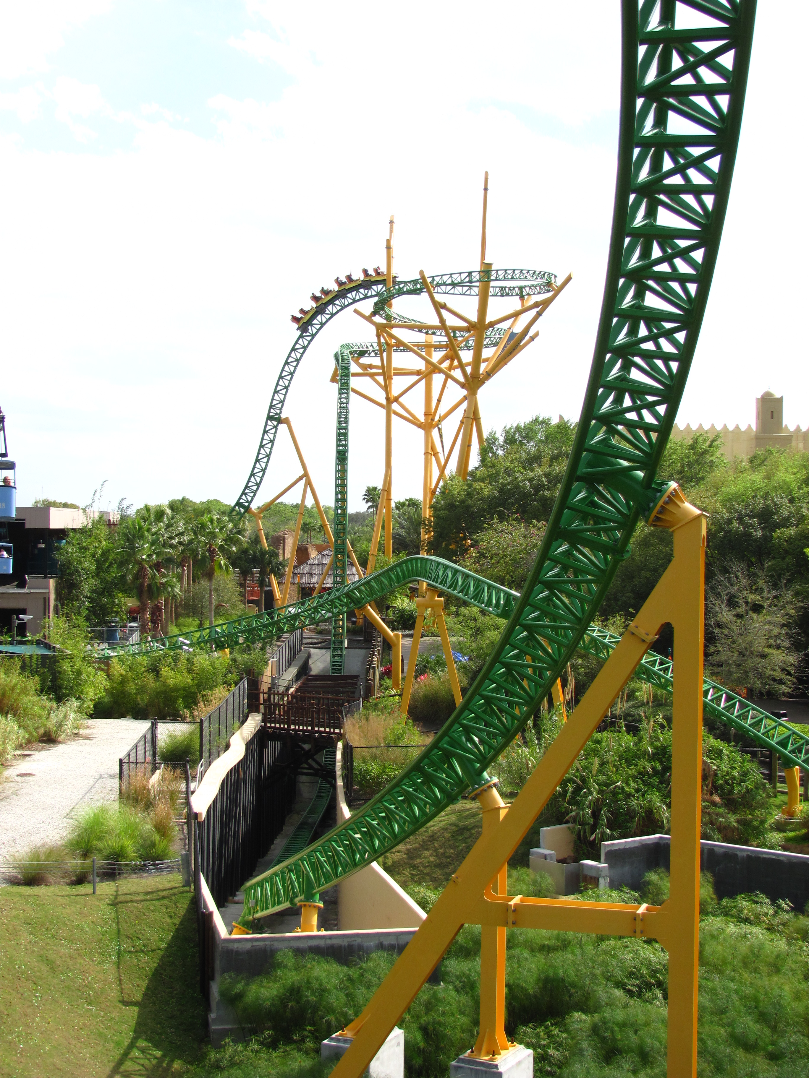 Taken from the Skyride